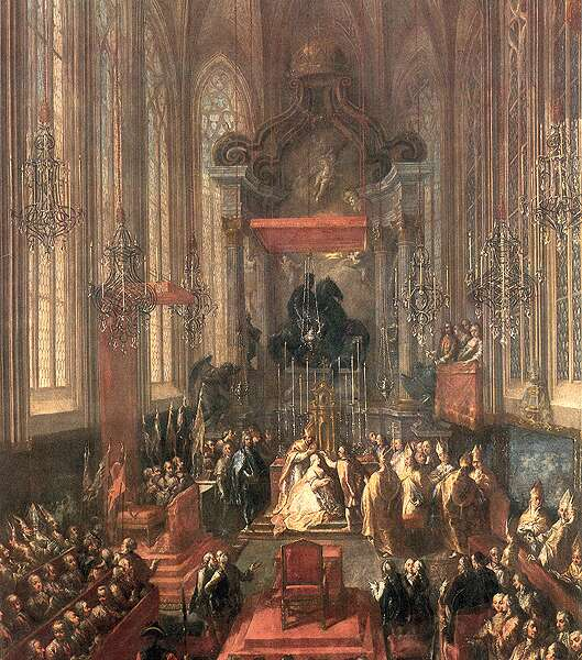 Coronation of Maria Theresa, 1741, Pressburg